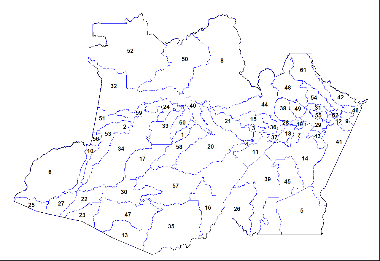 Map of the municipalities of the state of Amazonas, Brazil. Created by Rarelibra 19:07, 24 August 2006 (UTC) for public domain use. Created using MapInfo Professional v8.5 and various mapping resources.